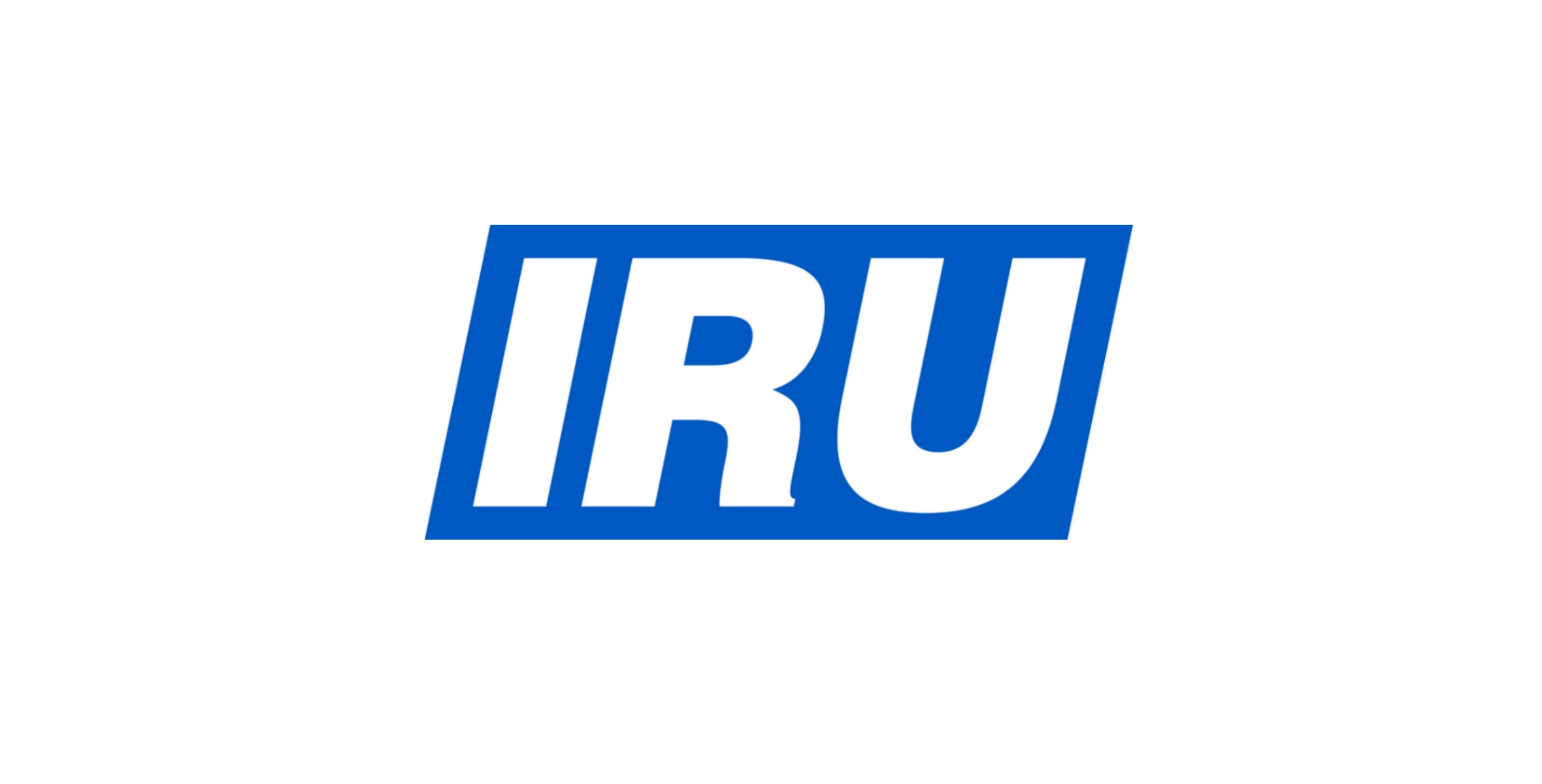 Logo IRU